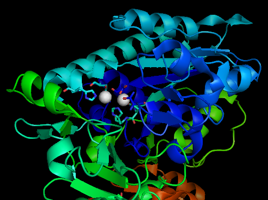 A closer view of the active site of Nucleotide Pyrophosphatase/Phosphodiesterase. The two Zn2+ atoms in the catalytic site are shown as white spheres.